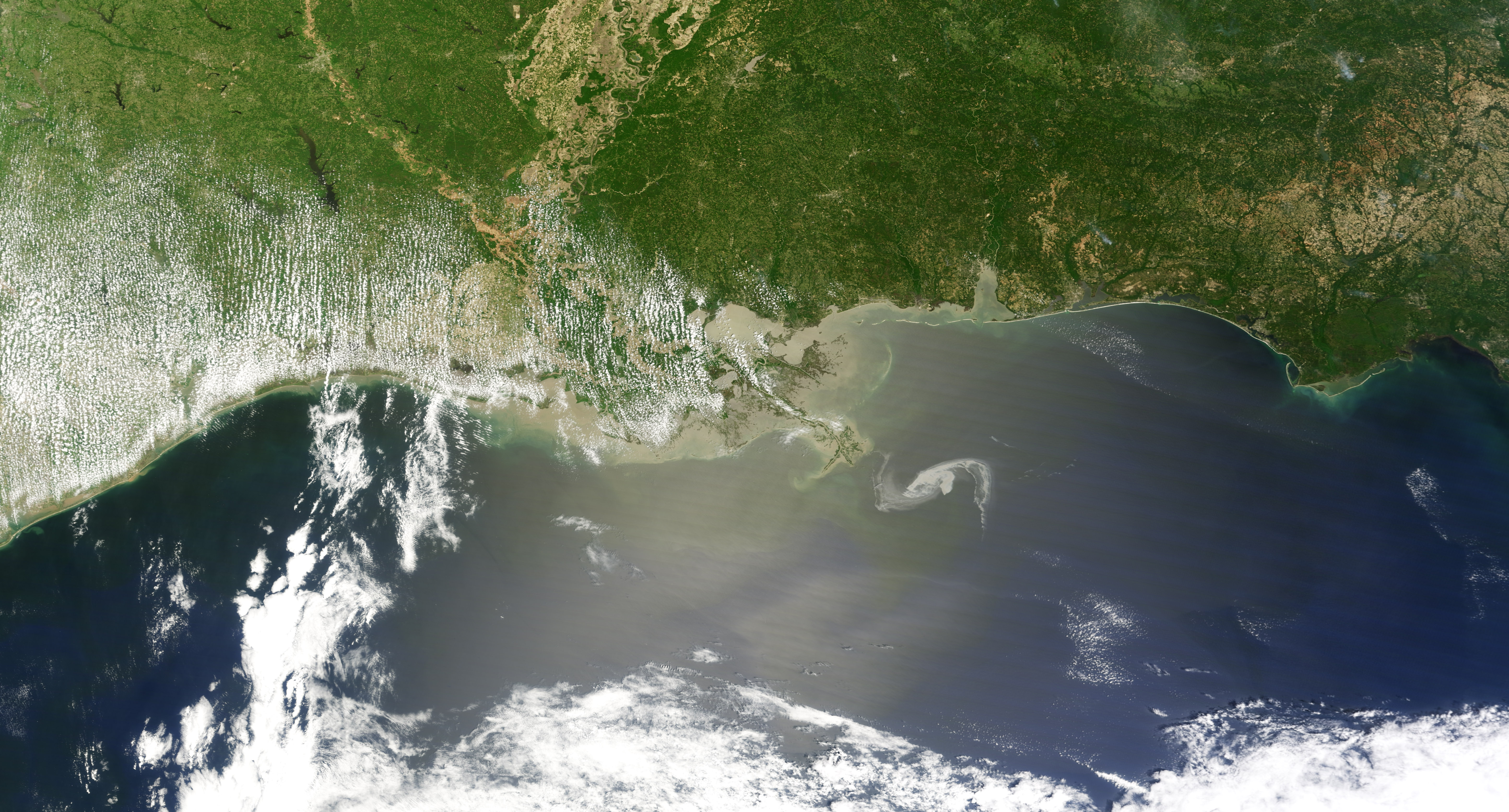 Natural-colour image of the oil slick just off the Louisiana coast. The oil slick appears as dull grey interlocking comma shapes, one opaque and the other nearly transparent. The north-western tip of the oil slick almost touches the Mississippi Delta. Sun-glint, the mirror-like reflection of the Sun off the water—enhances the oil slick’s visibility.